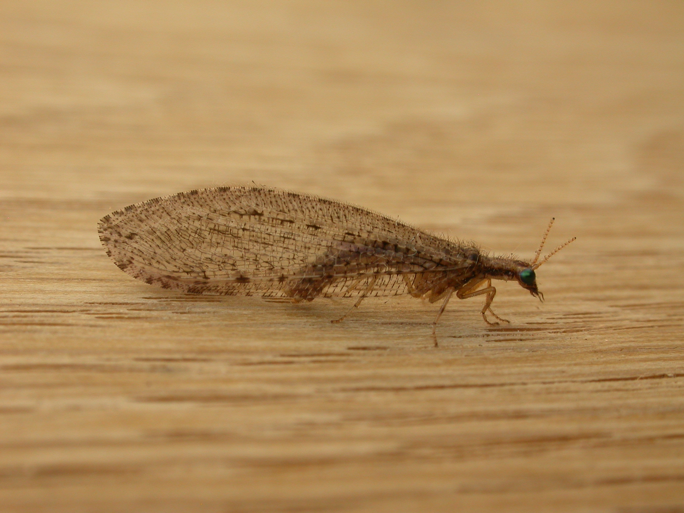 Stenosmylus sp., image taken in Aranda, Canberra, ACT, Australia. The antennae on this individual are both broken.